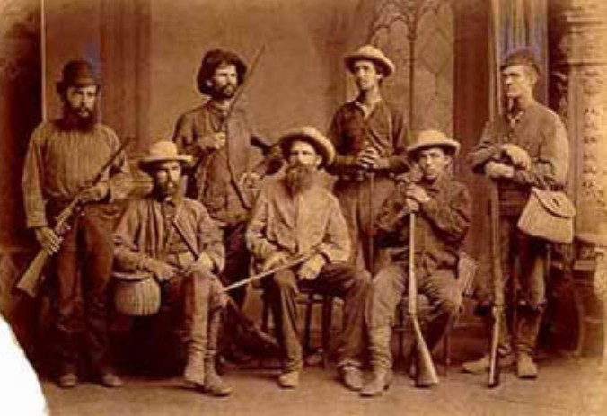 Prof. Joseph Beal Steere (front center) of the University of Michigan with his students, including Dean Conant Worcester (top, 2nd from left) prior to their 1887 zoological expedition to the Philippines